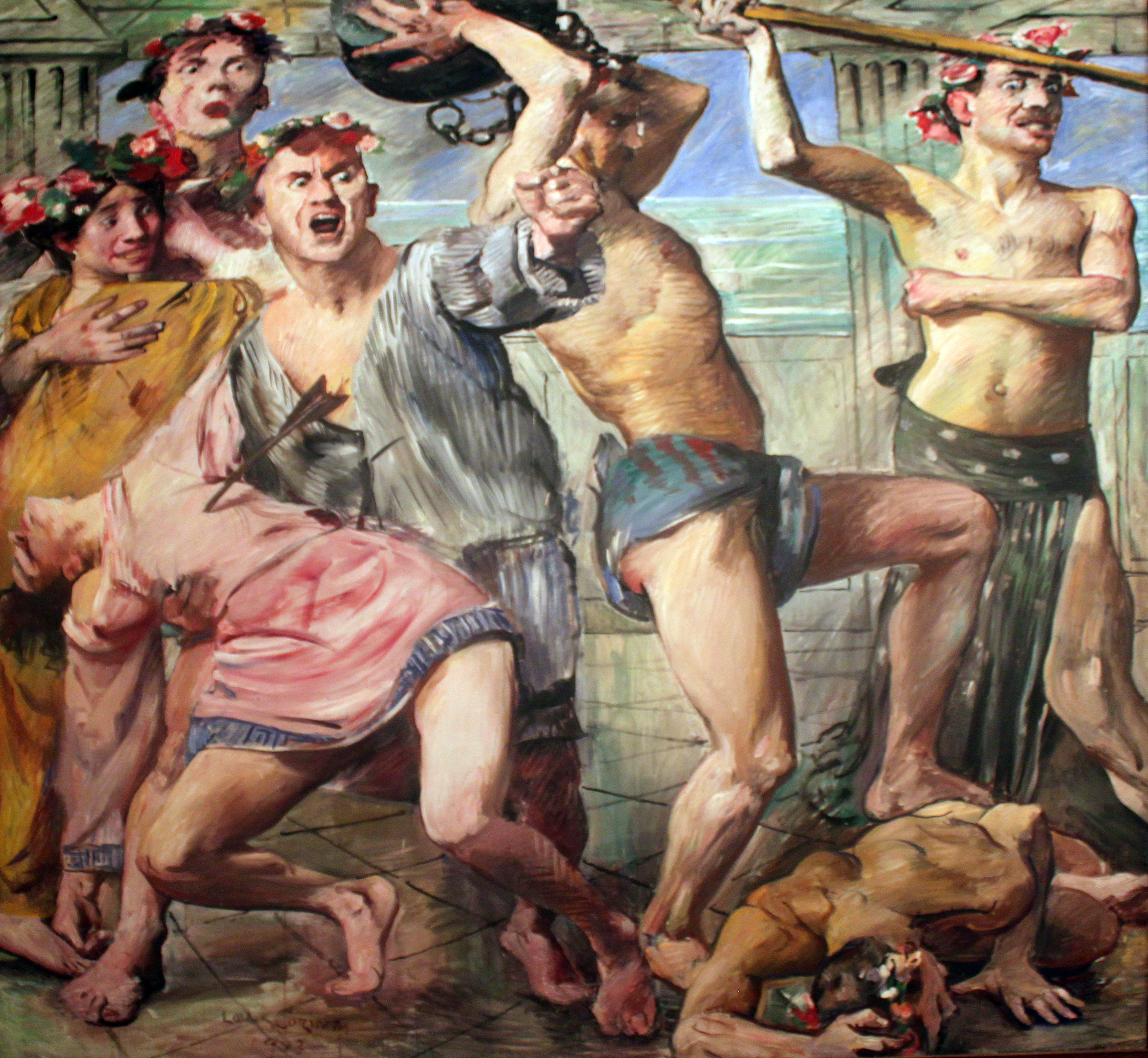 Wall decoration for the villa Katzenbogen (The suitors in the fight against Odysseus); Berlinische Galerie